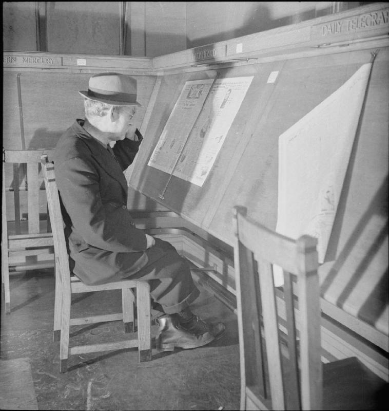 Public Library- the work of Leyton Public Library Service, Church Lane, Leytonstone, London, England, UK, September 1944 Mr T P Driscoll, a retired postman, reads a copy of the 'Daily Herald' in the News-Room at Leytonstone Public Library on Church Lane, Leytonstone.